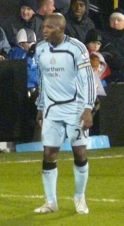 Cameroonian football (soccer) player Geremi Njitap